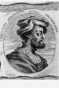 Amberger, Christoph (c. 1505–c. 1561)